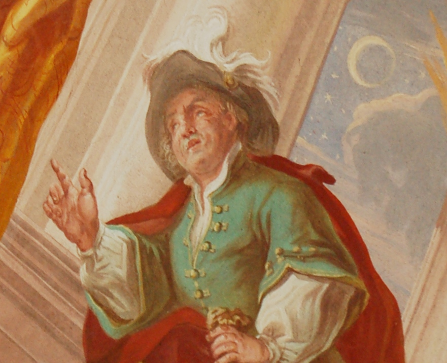 Self portrait of Simon Benedict Faistenberger (1695 - 1759), painter from Kitzbuehel, Austria, fresco in St. Niclas church near St. Johann in Tirol, Austria, 1744